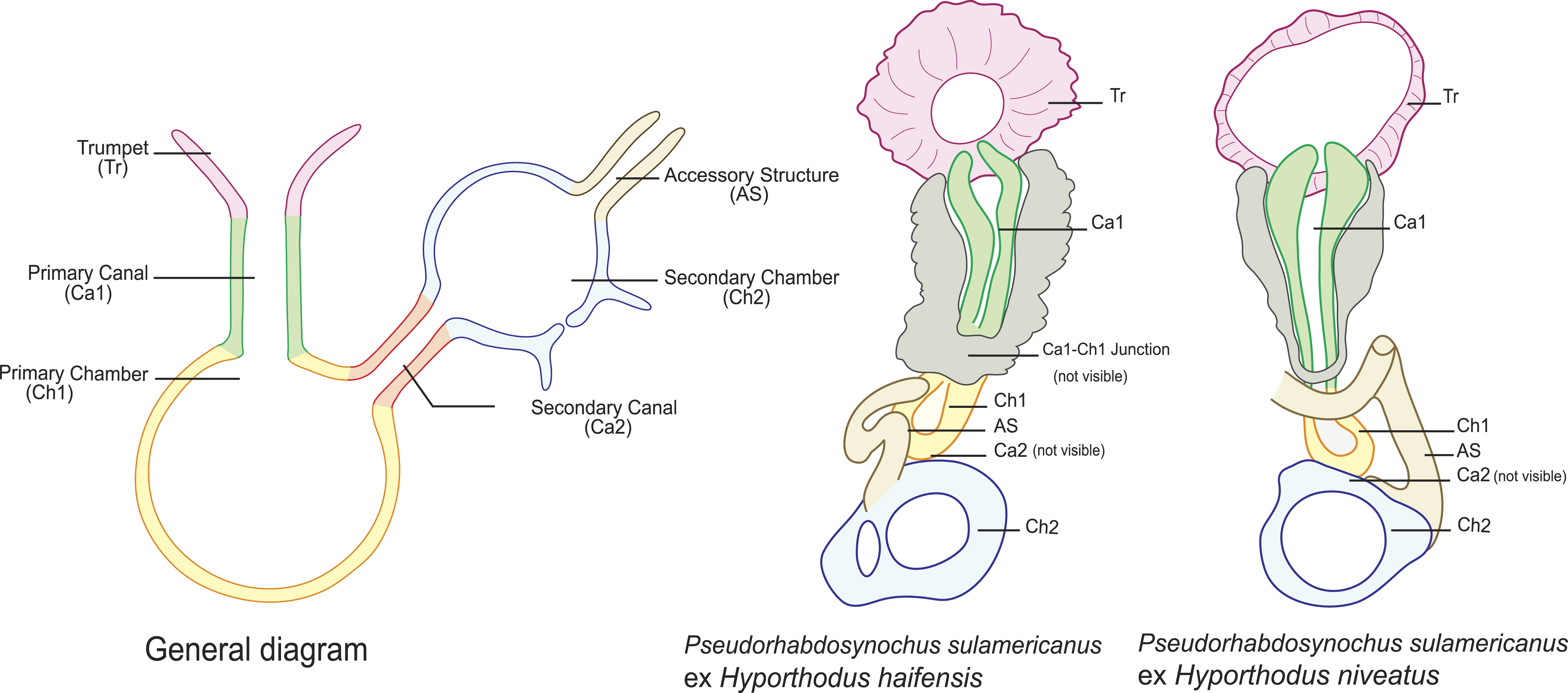 Figure 4 of Paper. Homologies of various parts of the sclerotised vagina of Pseudorhabdosynochus sulamericanus compared to a general diagram. Colours are similar in homologous parts. The junction between primary canal and primary chamber was not visible in specimens from Hyporthodus haifensis but was seen in specimens from Hyporthodus niveatus. The secondary canal (junction between primary chamber and secondary chamber) was not visible in any specimen. General diagram adapted from Justine (2007a).